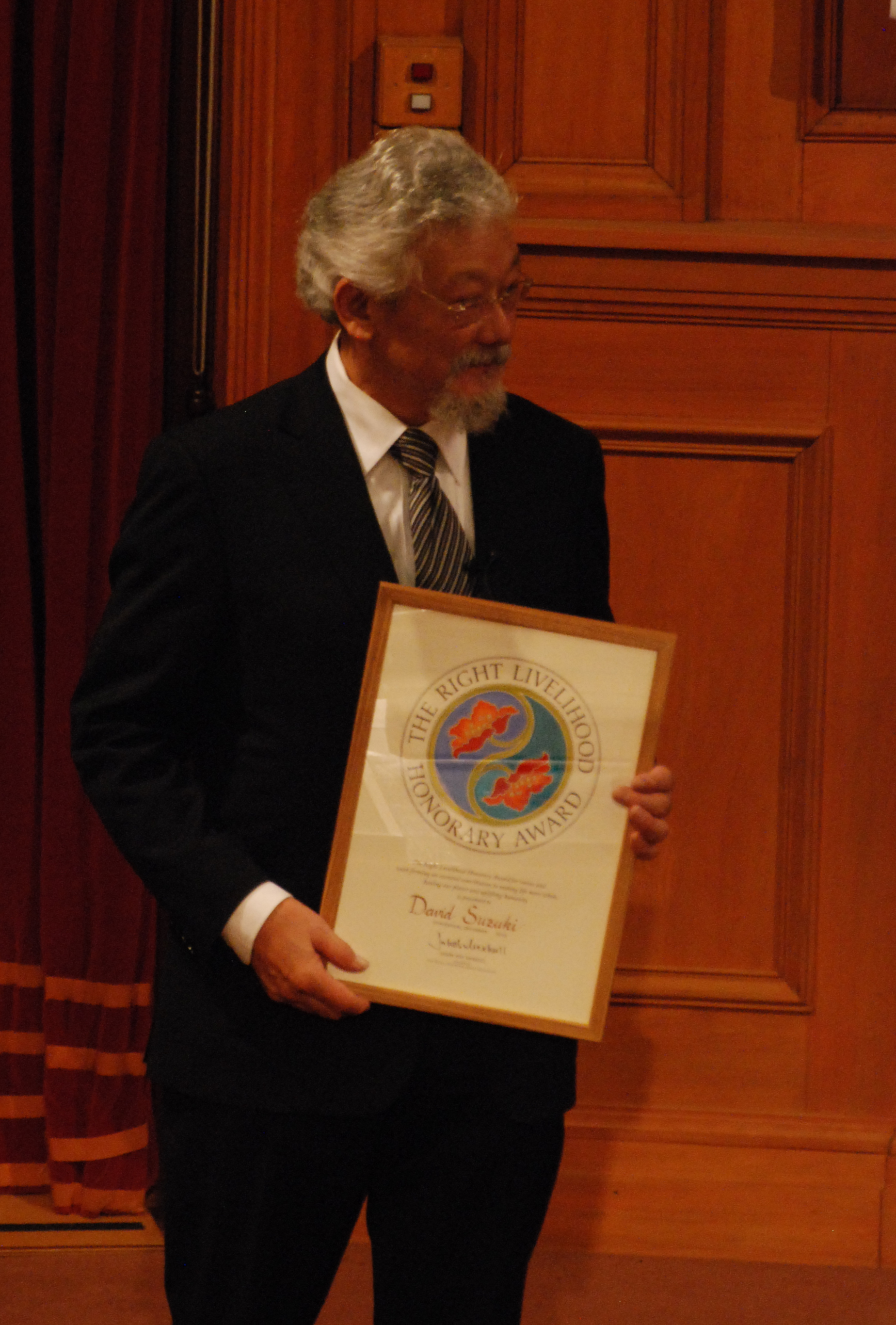 Award Ceremnony of the 30th Right Livelihood Award 2009: The prize is presented to David Suzuki.